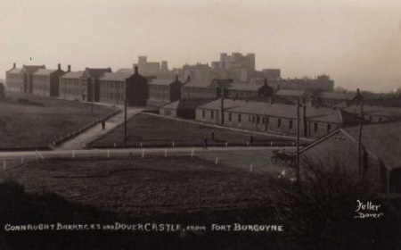 Old Postcard of Connaught Barracks, Dover